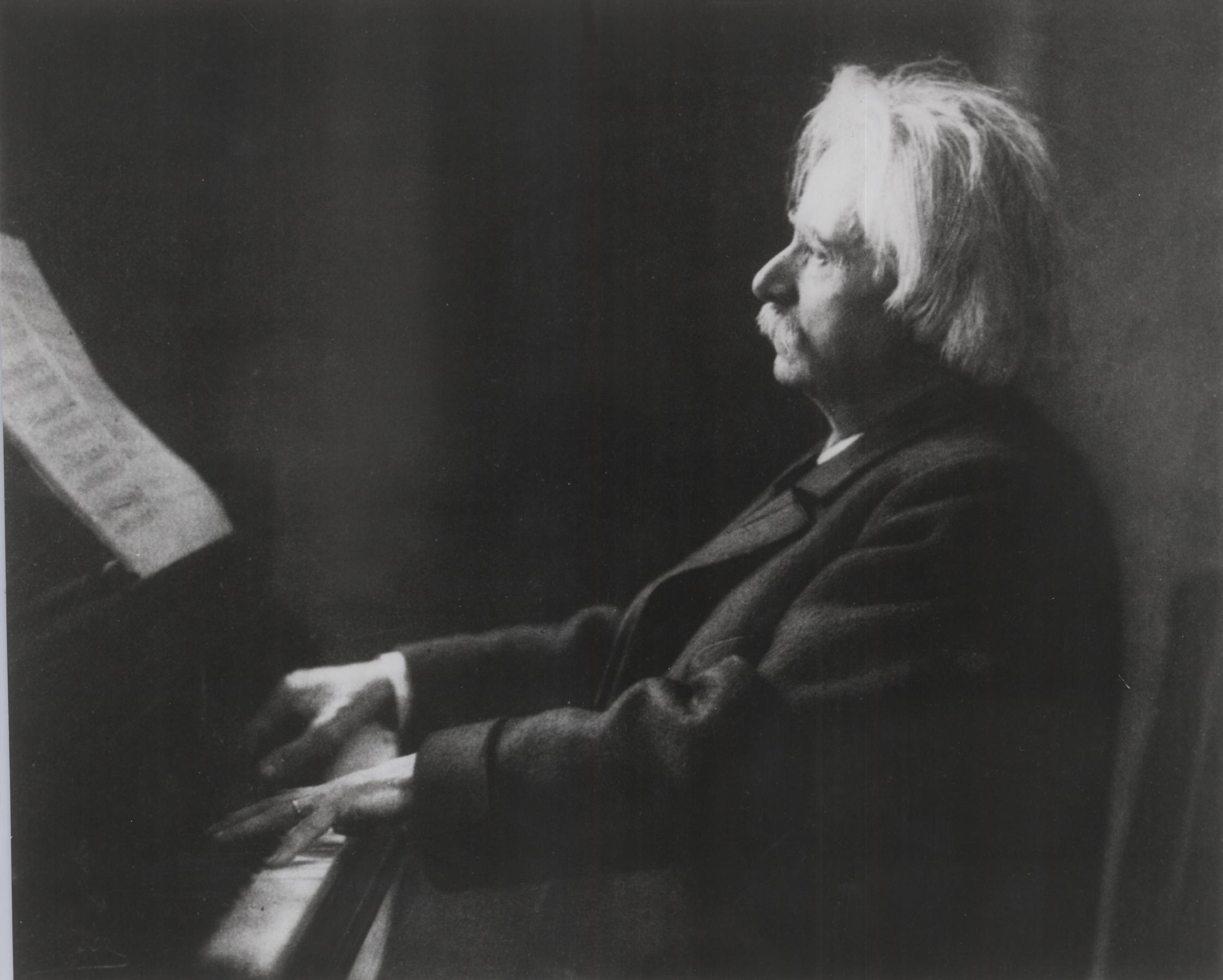 Artist: E. Bieber Date/place: ca. 1907, Berlin Subject: Edvard Grieg Medium: photographic positive, B&W Notes: none Persistent URL: [#//nettbiblioteket.no/grieg-samlingen/engelsk/grieg_intro_eng.html” Original belongs to the Edvard Grieg Archives at Bergen Public Library]